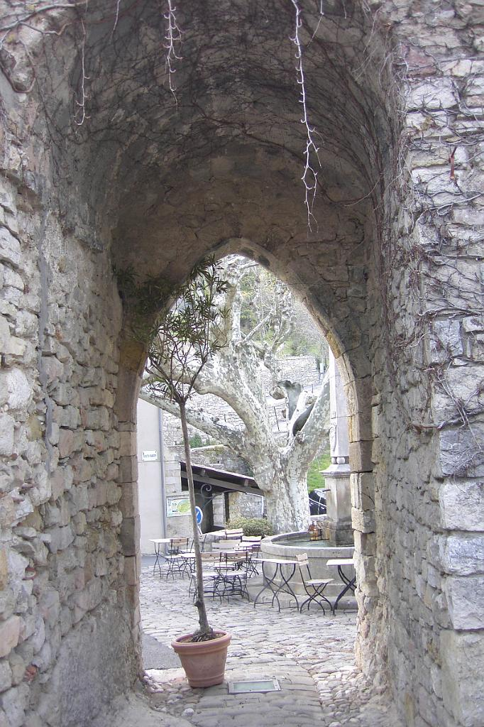 La porte Sarrasine Seillans